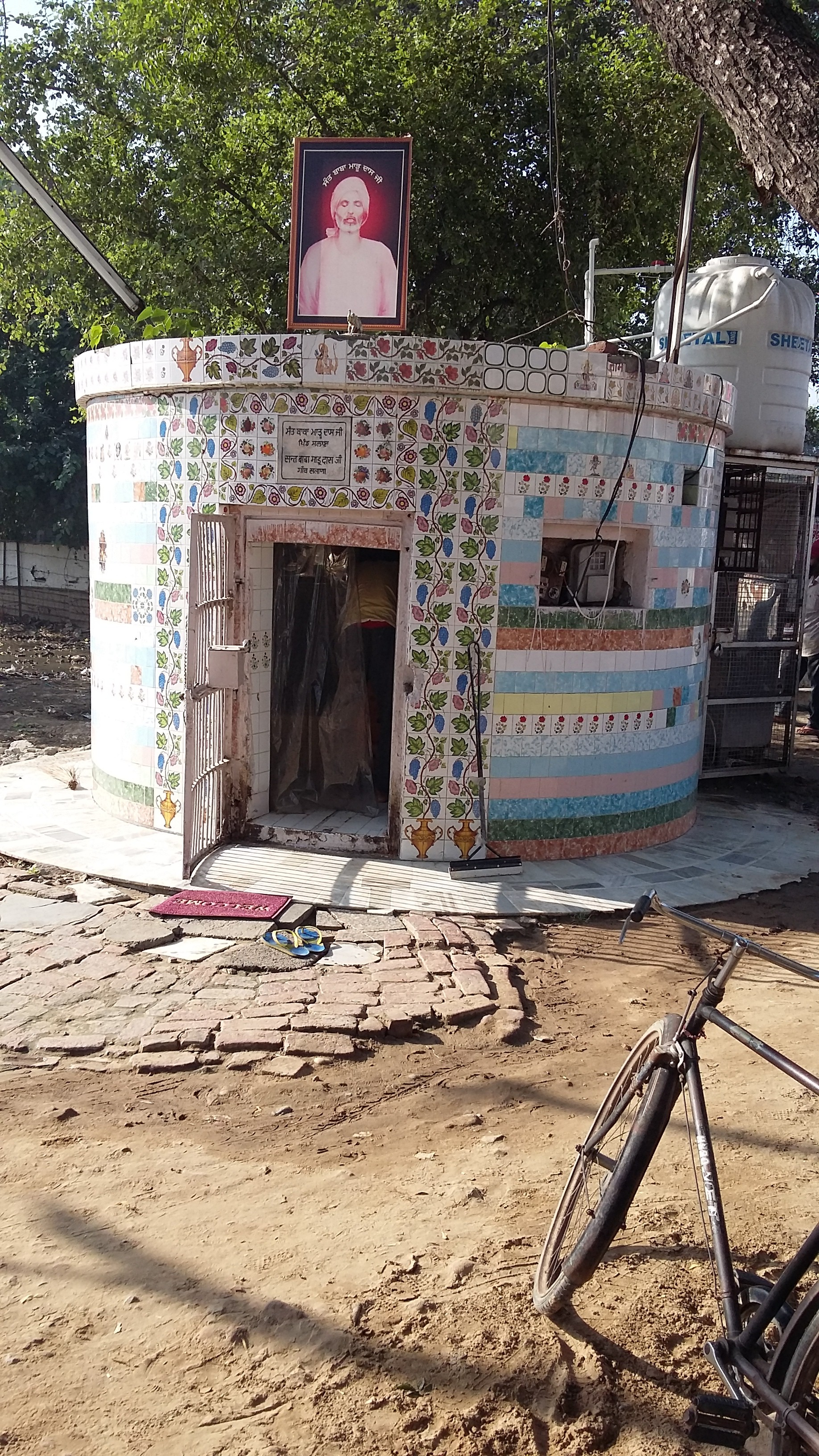 ਮਾੜੂਦਾਸ ਦੀ ਸਮਾਧ